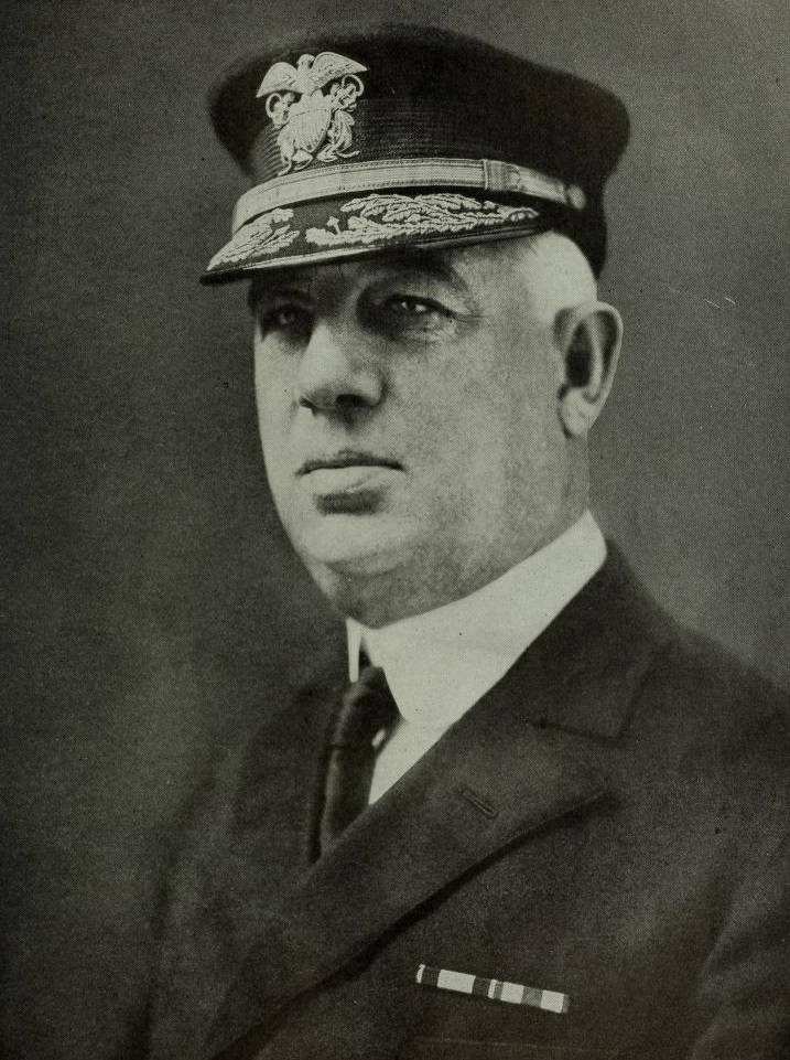 Portrait of William H. G. Bullard